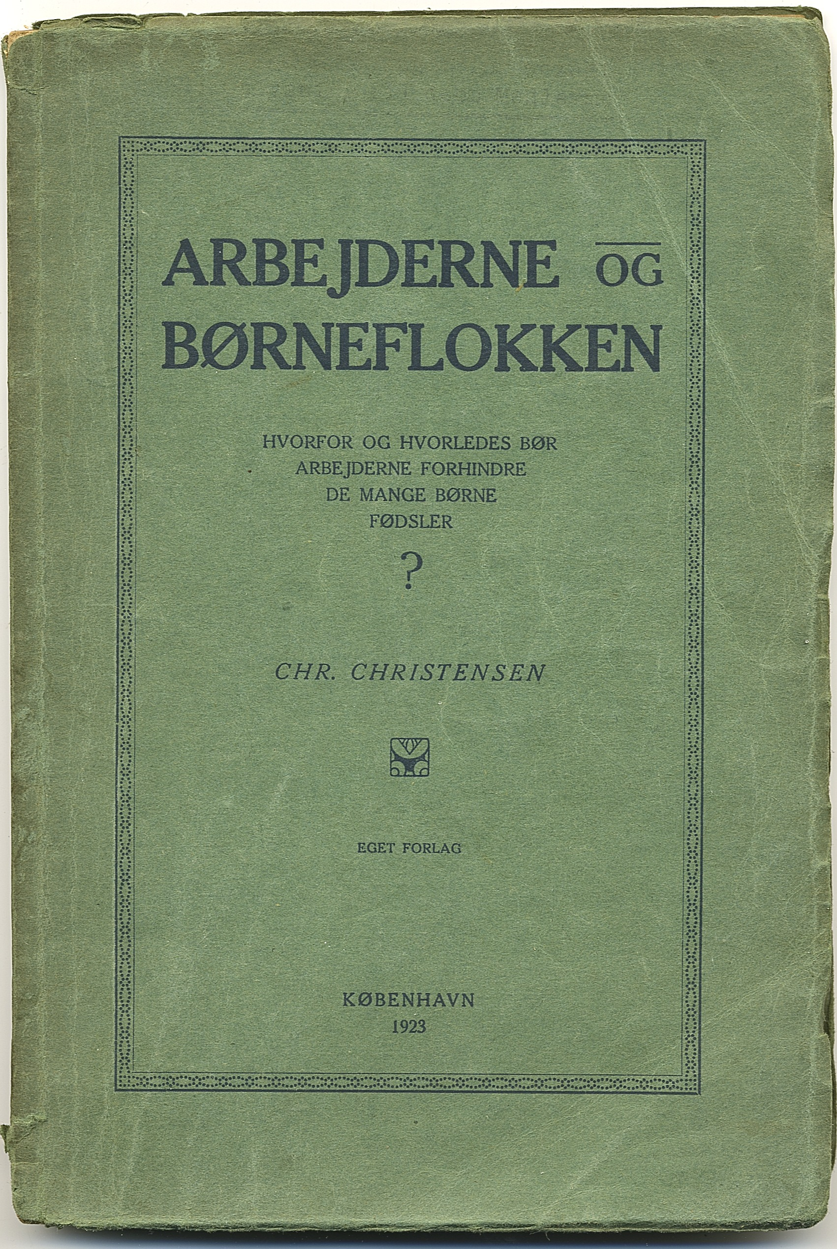 Book cover. The danish revolutionary syndicalist Christensen Christensen, 12.1.1882-10.6.1960. Book title : The workeres and the children crowd.(free translation). On photo 5. edition 1923, own editorial. Very early 1910 publication in favor of Sexual revolution and birth control.